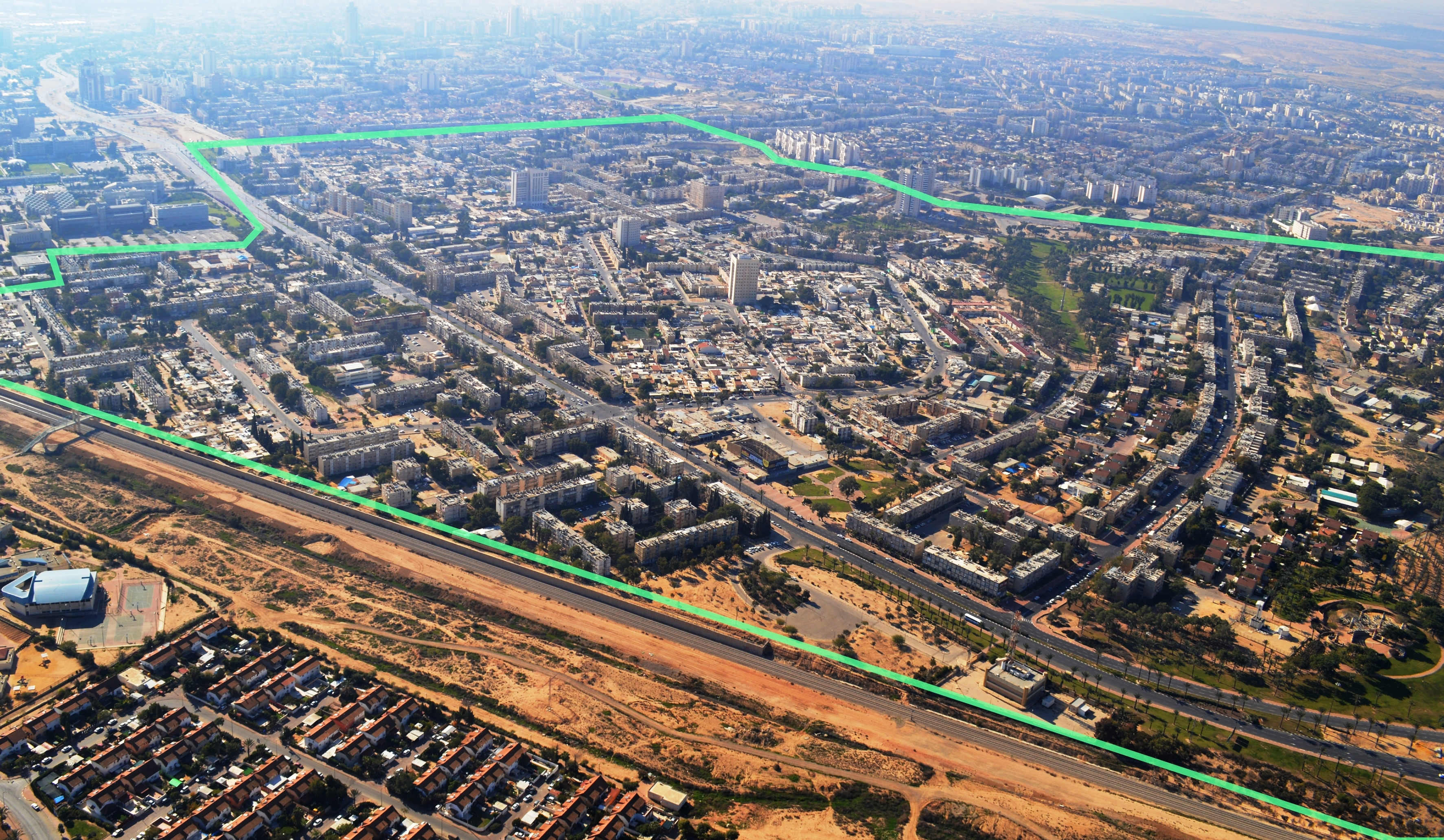 Beer Sheva Shchuna D Aerial View